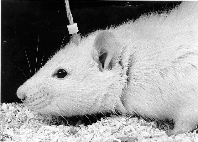 WAG/rij electrode rat.